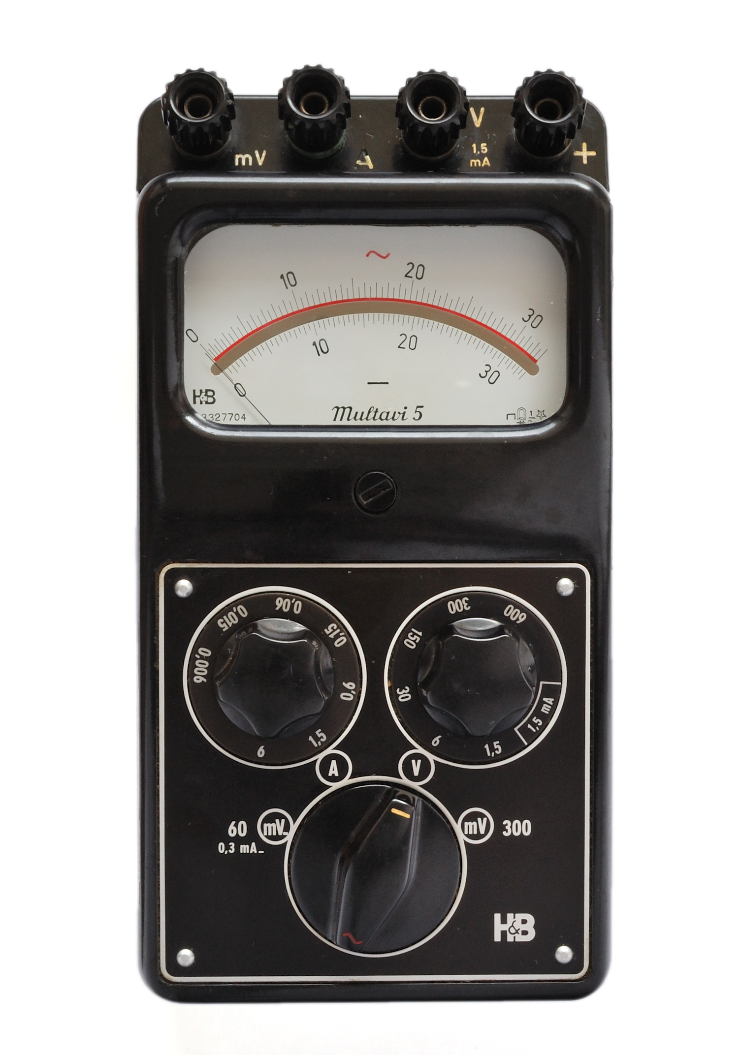 Analog multimeter, type Multavi 5, manufactured by Hartmann & Braun AG, Frankfurt (Germany), 1957. The instrument is suitabe for direct and alternate current and has in total 32 measuring ranges. Voltage and current can be measured simultaneously. It has two scales, the red marked one is for the alternate current. A mirror below the scale allows a parallax-free reading. Accuracy 1% for the direct and 1.5% for the alternate current. The instrument works with a Moving coil meter